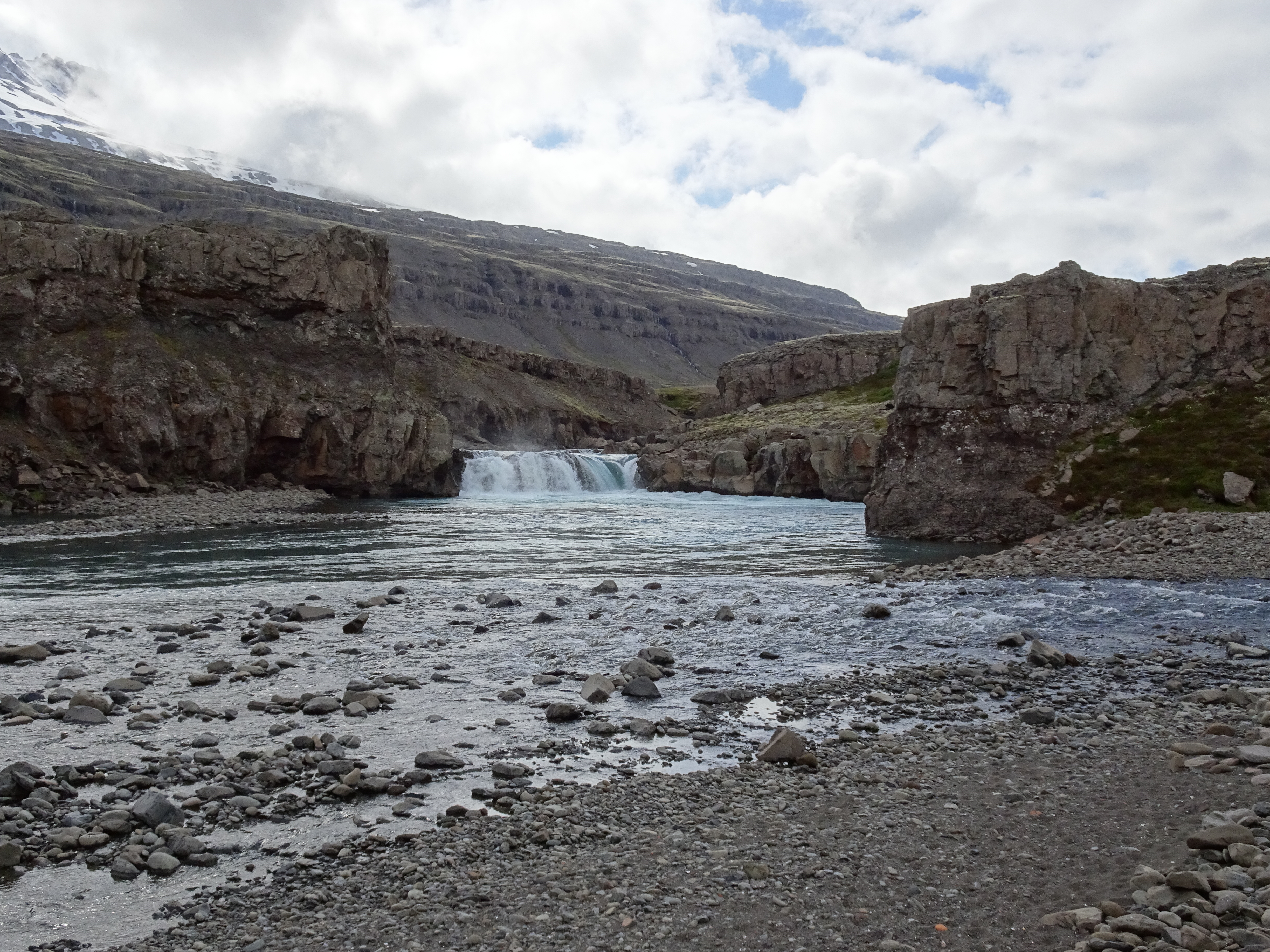 The Einstigsfoss, a waterfall in het Eastfjords of Iceland.